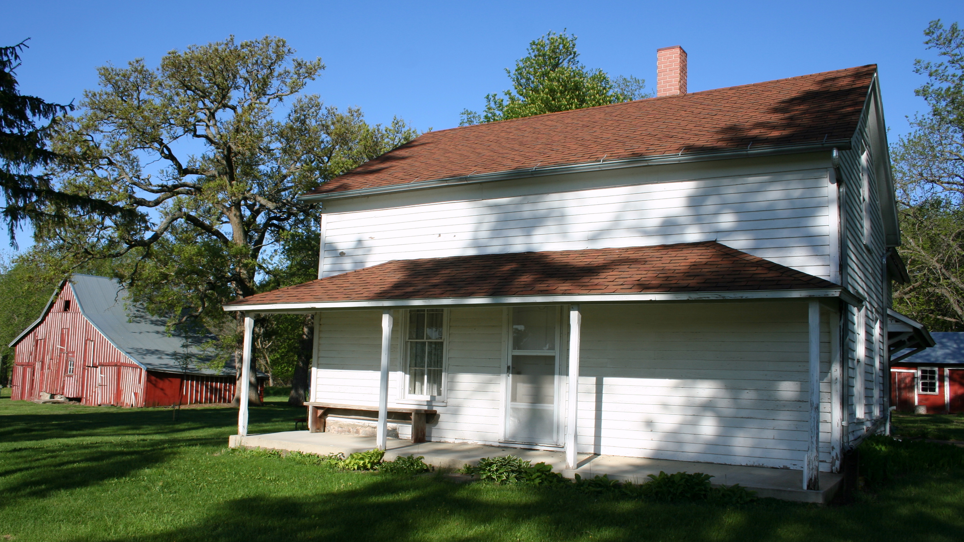 Barn, house, and blacksmith shop (right) at the Peterson Point Historic Farmstead in Emmet County, Iowa. The farmstead is listed as a historic district on the National Register of Historic Places.